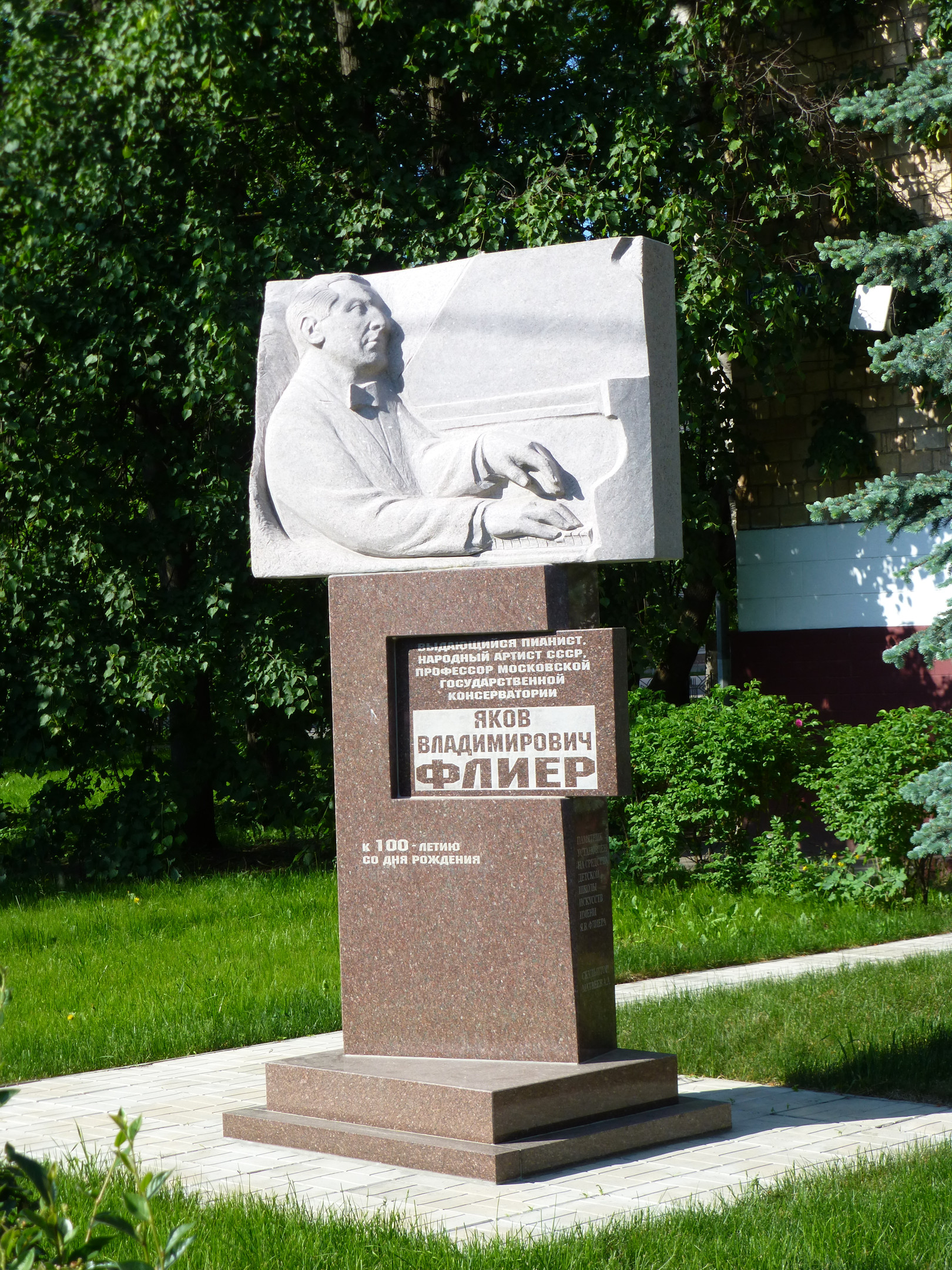 Yakov Flier monument